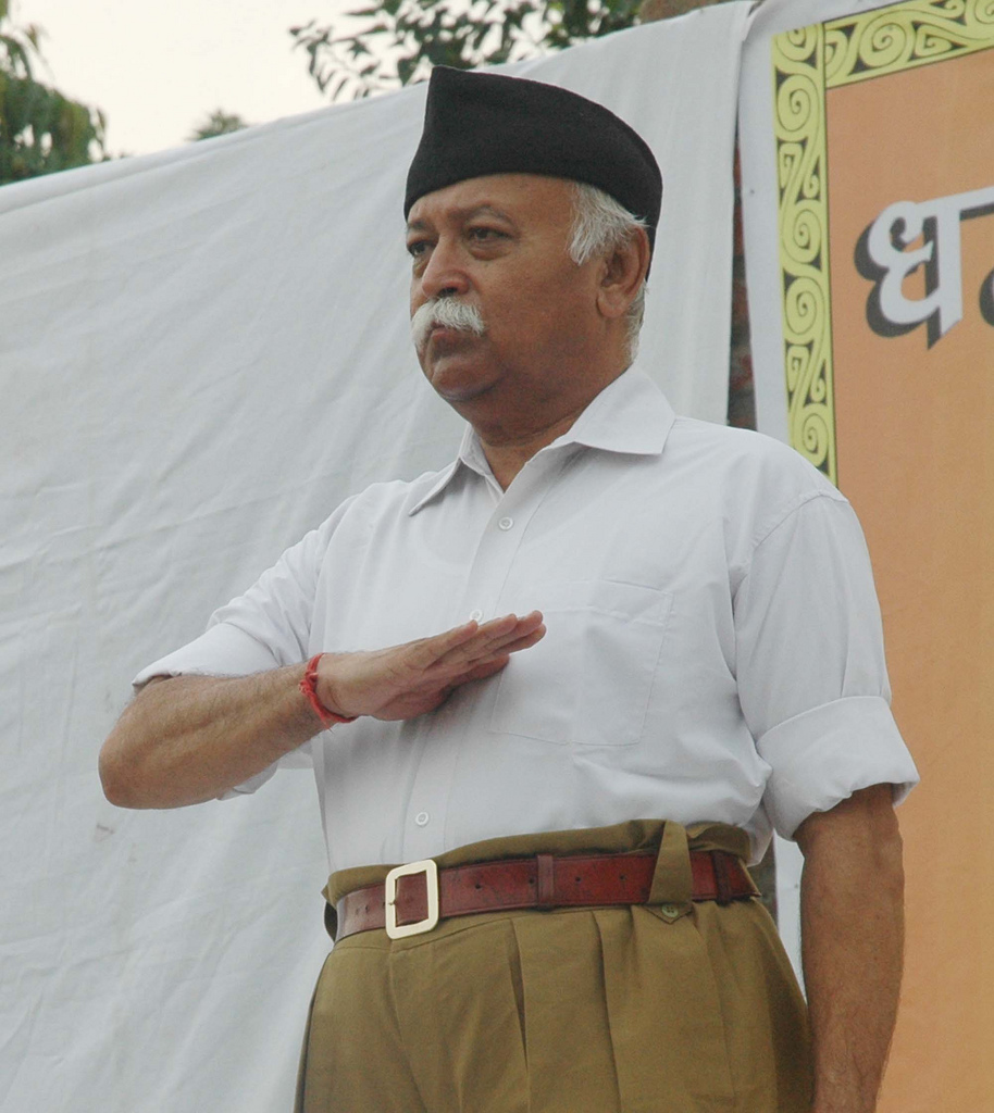 Zogist salute